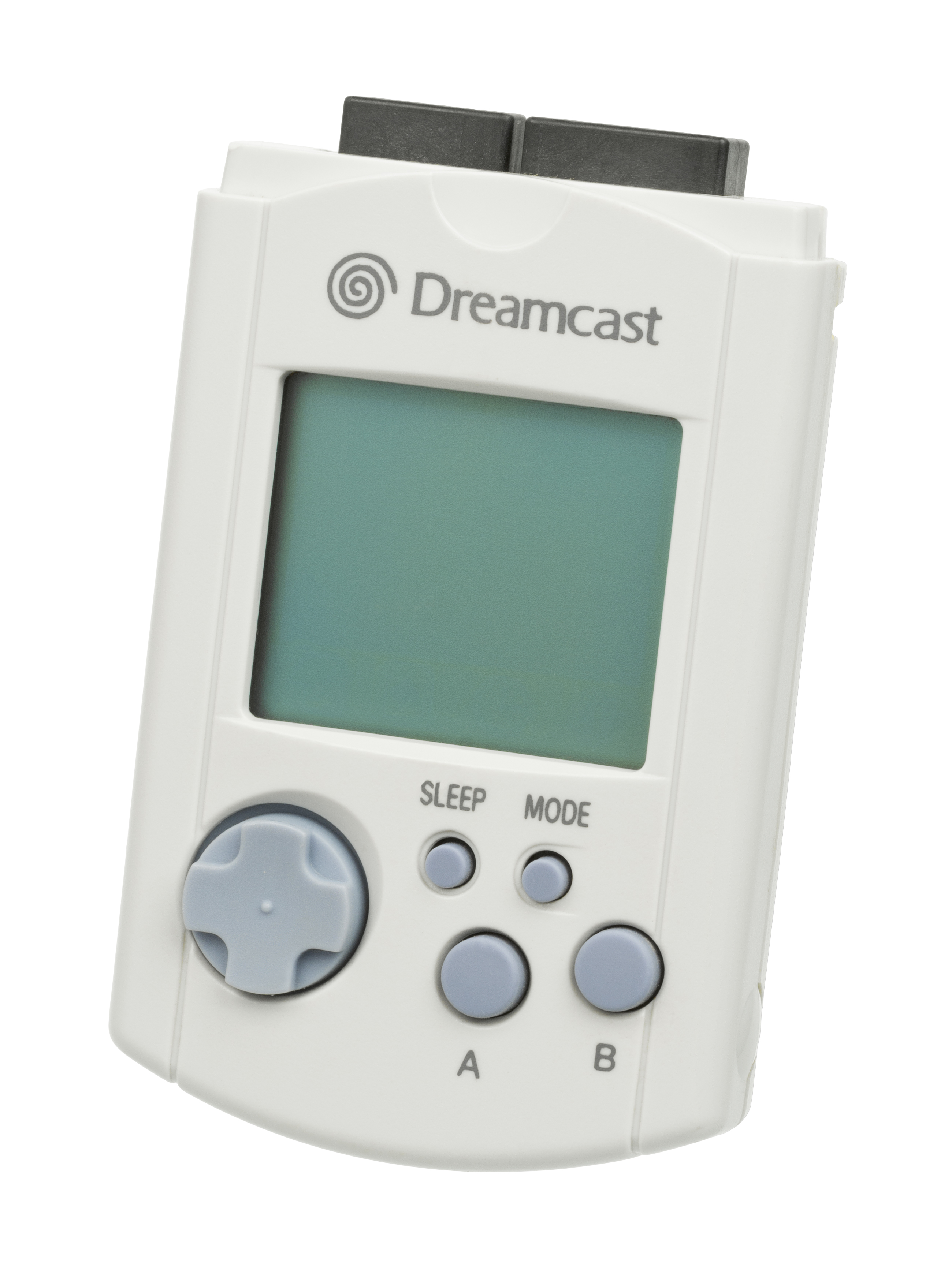 A North American Sega Dreamcast VMU, without cap. The VMU was used for saving data, swapping data with other users, and playing simple games on its screen.